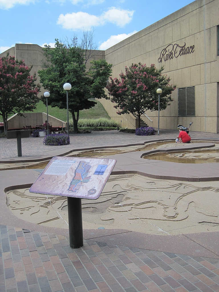 Mississippi River Park and Museum on Mud Island in Memphis, Tennessee.